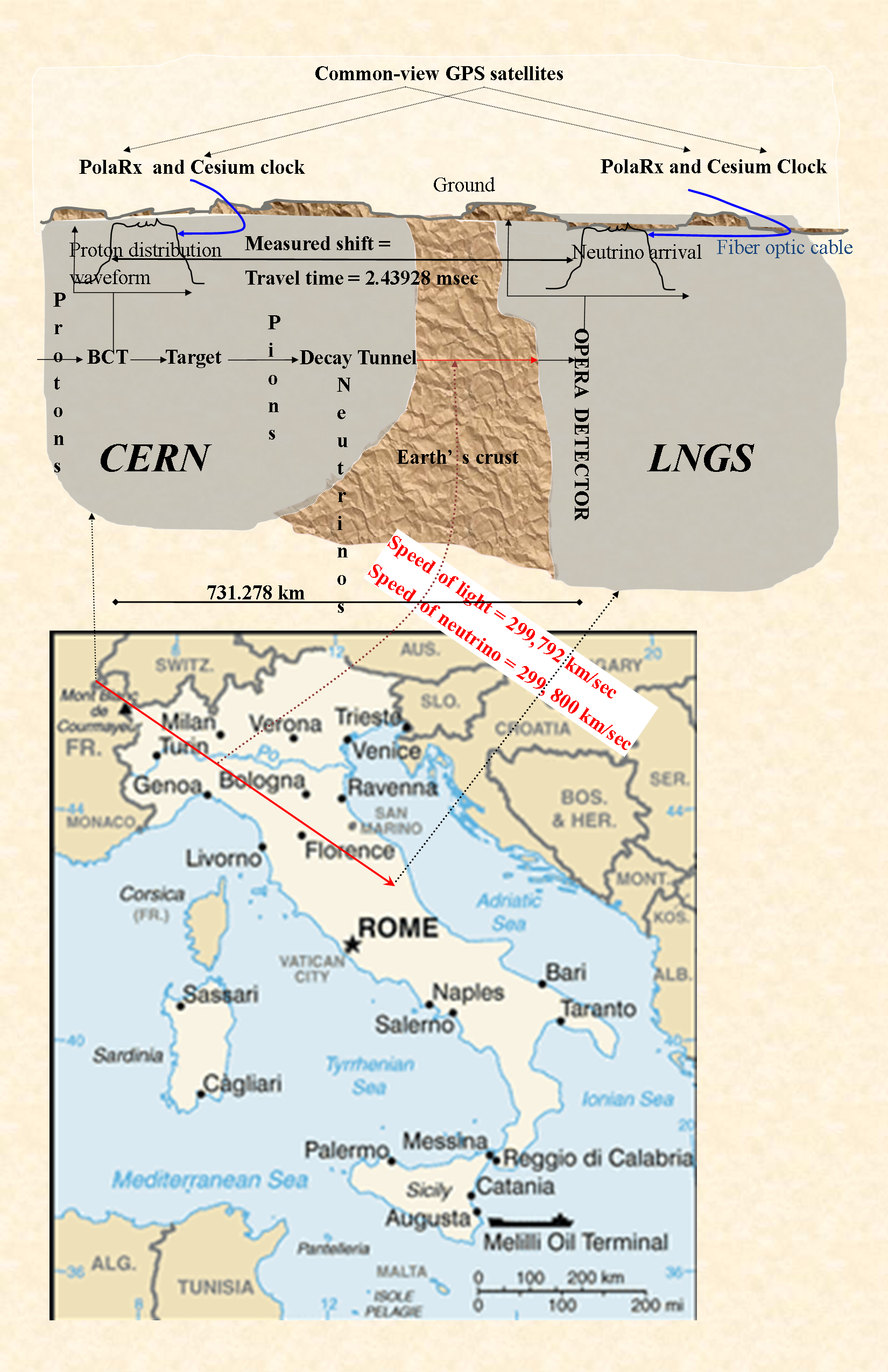 The bottom part is a CIA worldbook map.